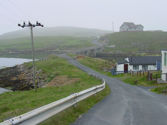 The road across the Out Skerries On the island of Bruray, this view looks east over the Skerries Bridge, built 1957 to provide a fixed link with the neighbouring and larger island of Housay. Out Skerries, Shetland Islands